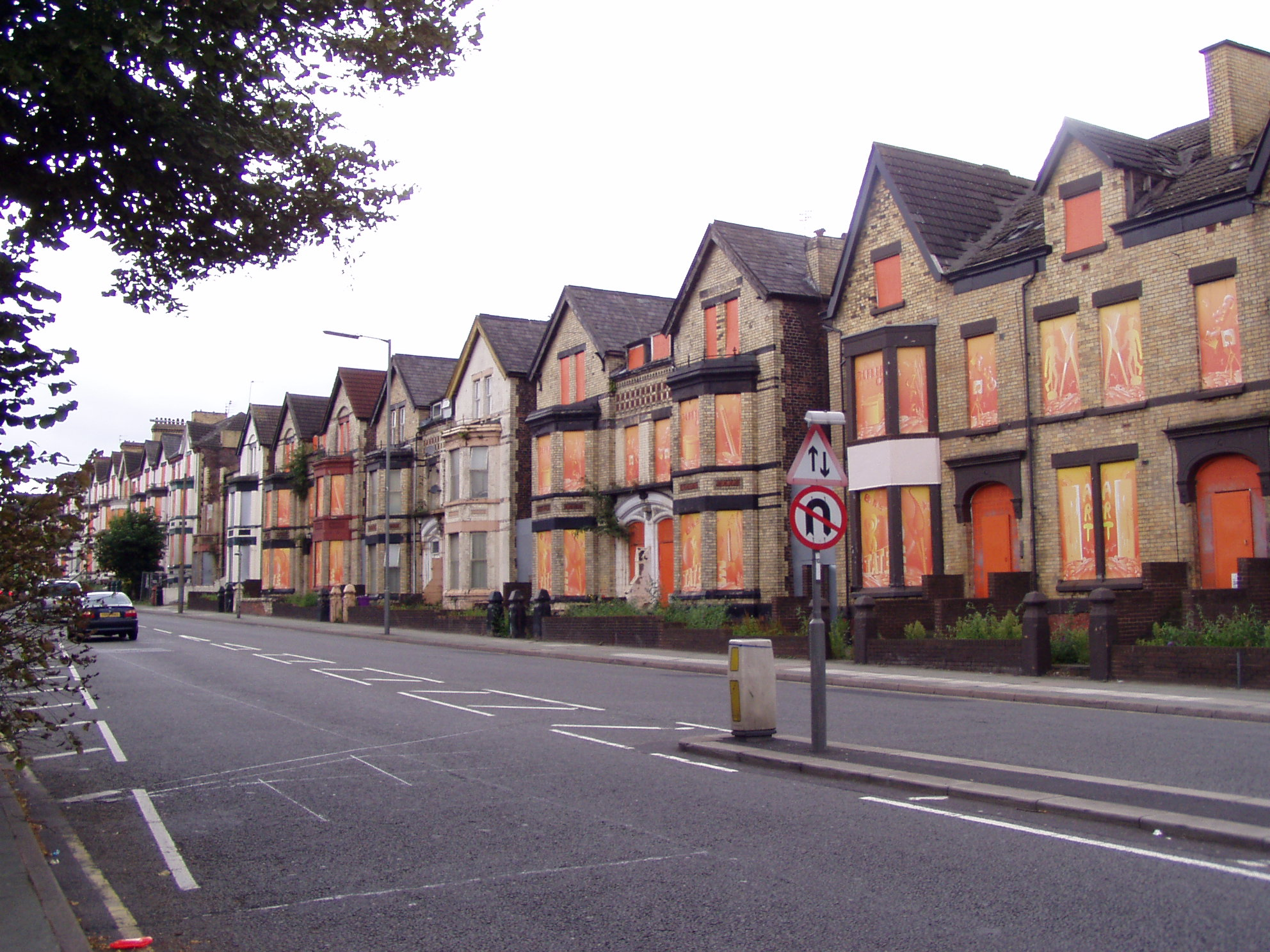 Edge Lane, Liverpool from the end pf Botanic Road